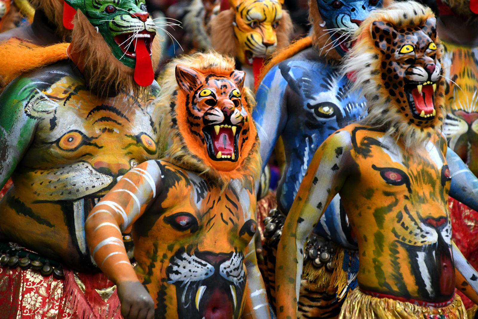 Pulikkali during Onam festival in Kerala, India.